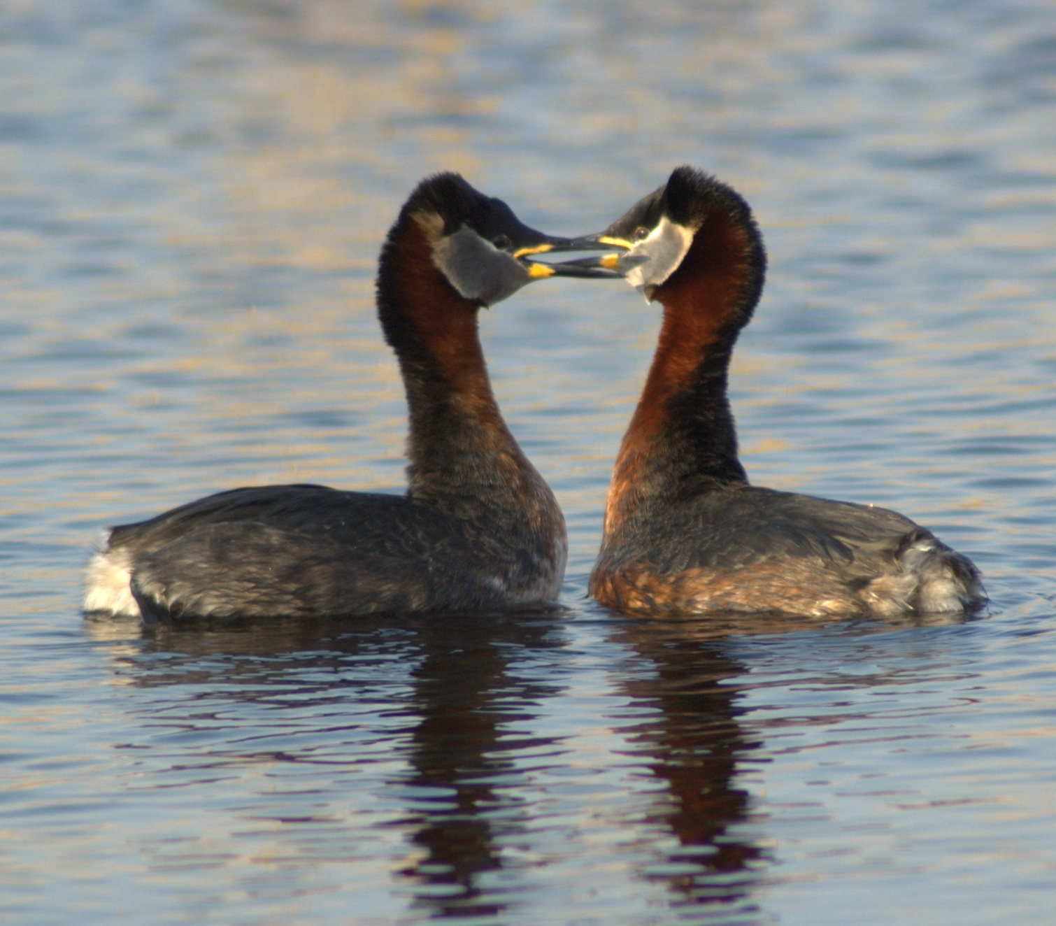 Male and female of species Podiceps grisegena engaged in courtship (image taken in late march). * en: Two Red-necked Grebes engaged in courtship. Camera: Nikon D50 Location: Amager Faelled (north of Bella Center) at Vestamager in Copenhagen, Denmark.